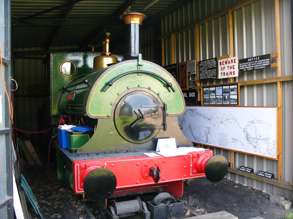 Lee Moor No. 2 on display at Buckfastleigh, Devon, England. The tramway used a track gauge of 4 feet 6 inches - 2.5 inches narrower than British standard gauge - so it is preserved in non-workoing condition as there is no where for it to run. A Lee Moor Tramway wagon and other relics are kept in the shed with it, and its sister locomotive, Lee Moor No. 1, is preserved at Wheal Martin China Clay Museum in Cornwall.